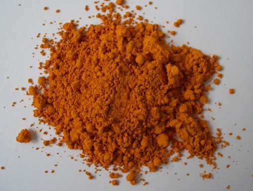 Pigment Brown 24